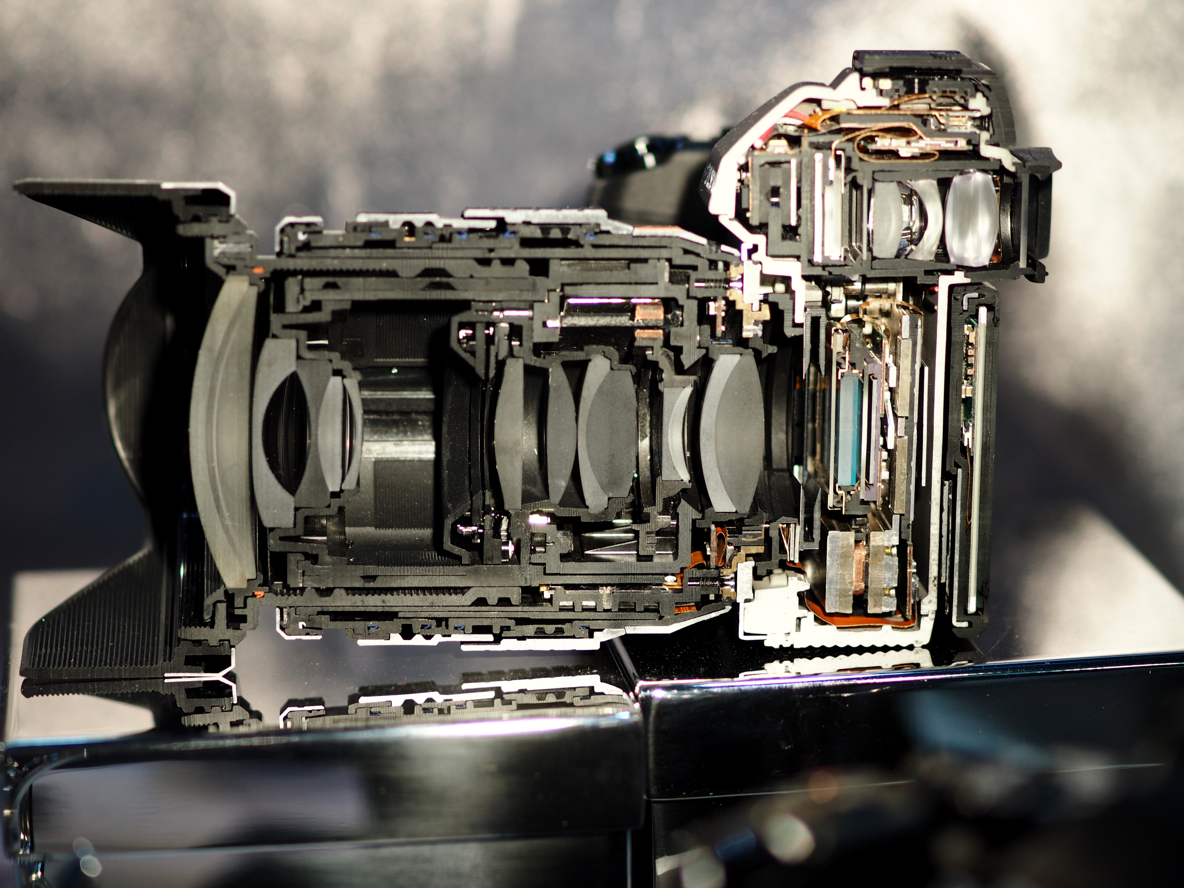 Olympus OM-D E-M1 cutted.